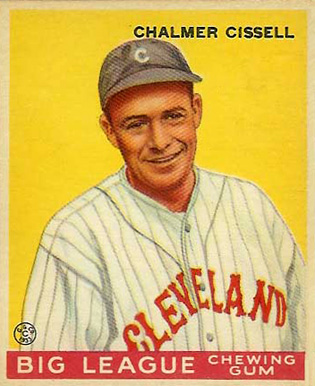 1933 Goudey Baseball card of Chalmer "Bill" Cissell of the Cleveland Indians #26. PD-not-renewed.